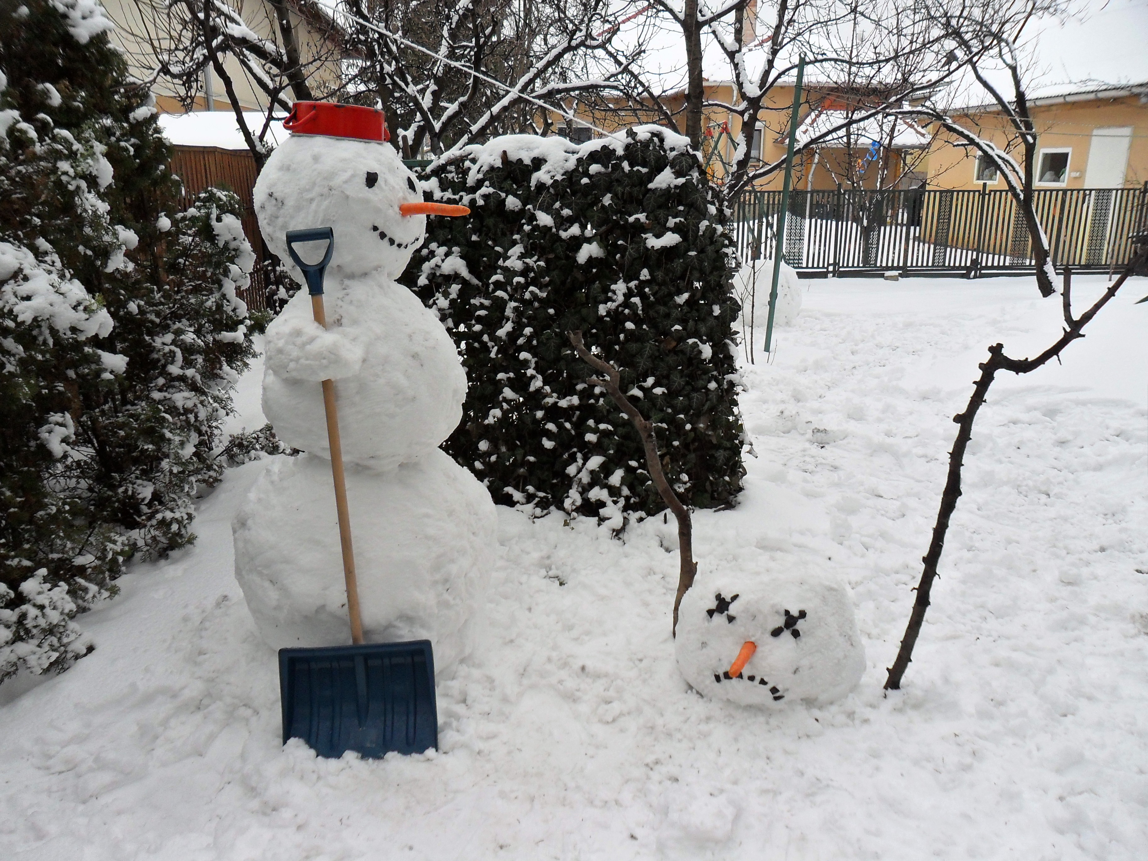 'Calvin and Hobbes'-style snowmen. See the strip appeared on January 21, 1991.